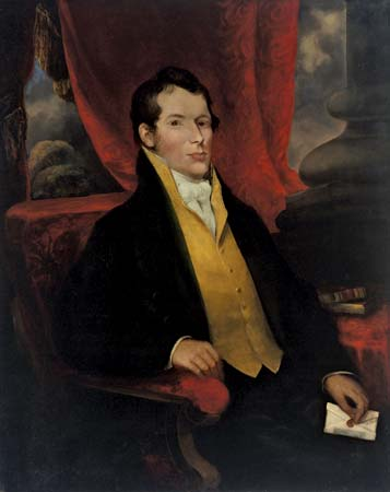 Portrait of John Macarthur, wool pioneer in Australia.